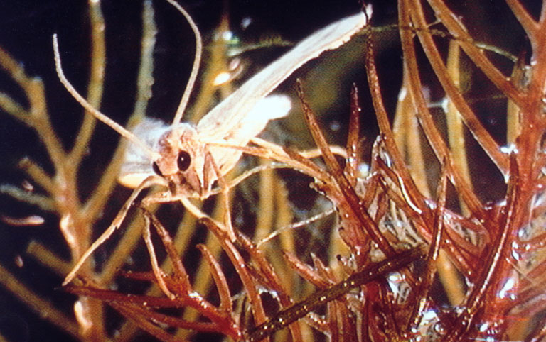 Acentria ephemerella